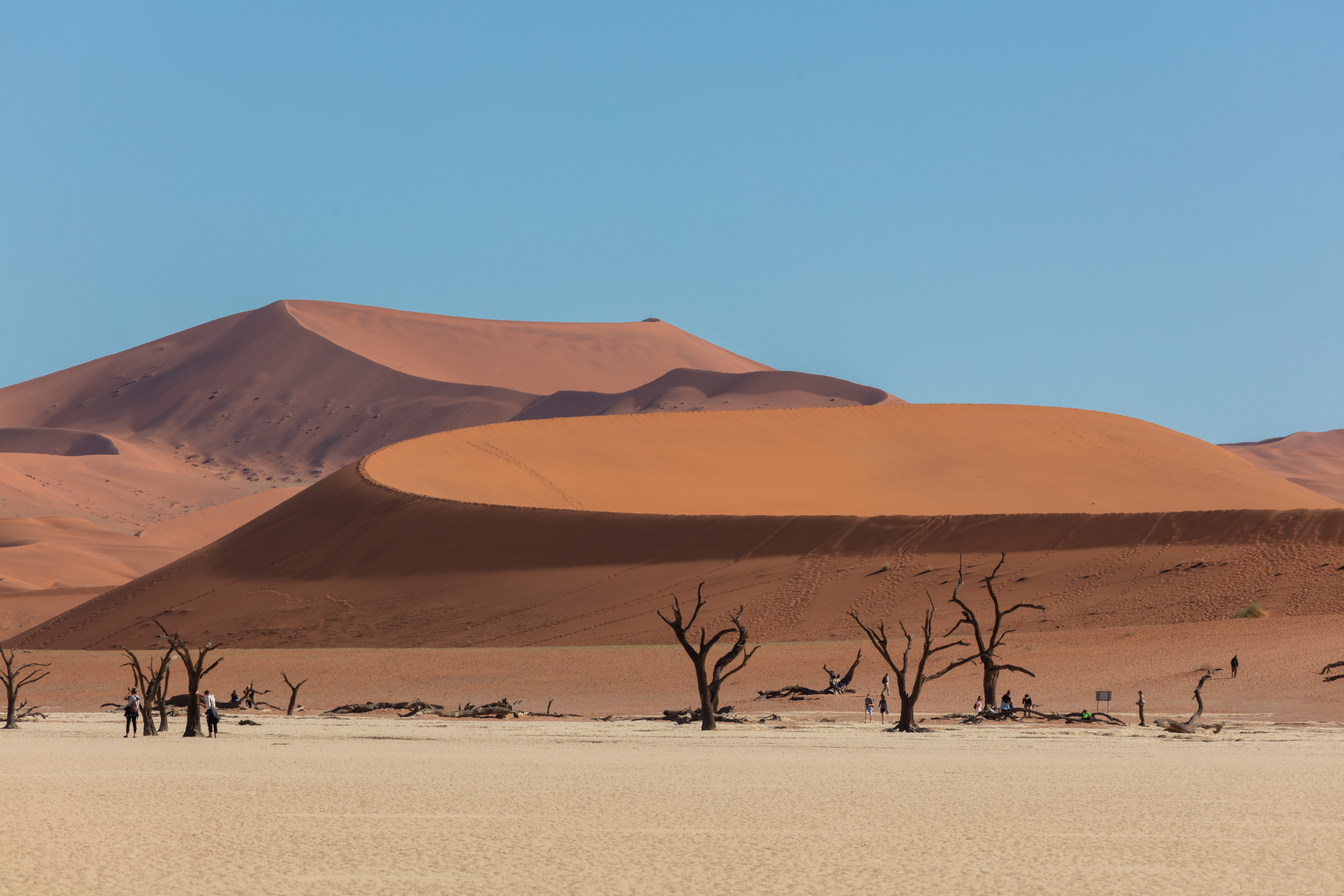 Dead Vlei, Sossusvlei, Namibia